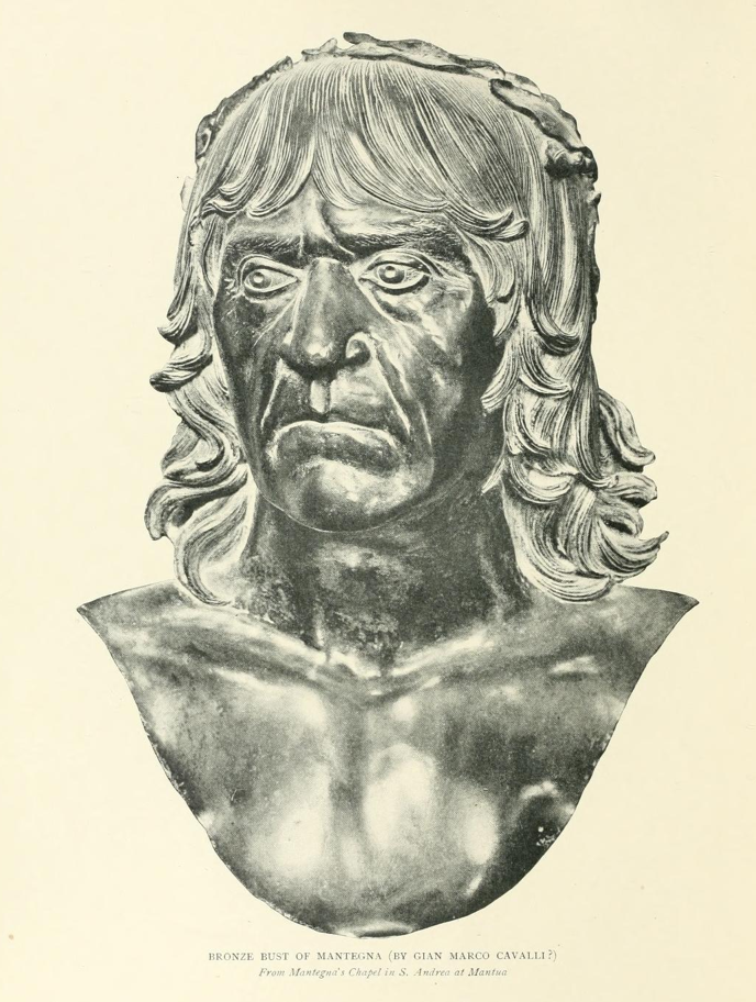 Bronze Bust of Mantegna, Autotype Company (1901).